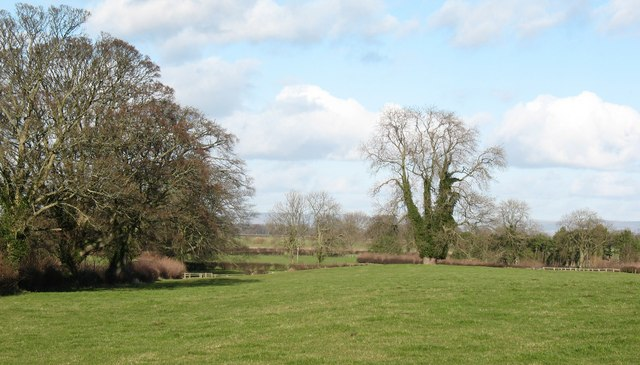 Field at Aldborough Not just any old field, but one that has a distinct ridge running away from the camera towards the big tree. This ridge marks the line of the original Roman wall around the town of Isirium Brigantium.